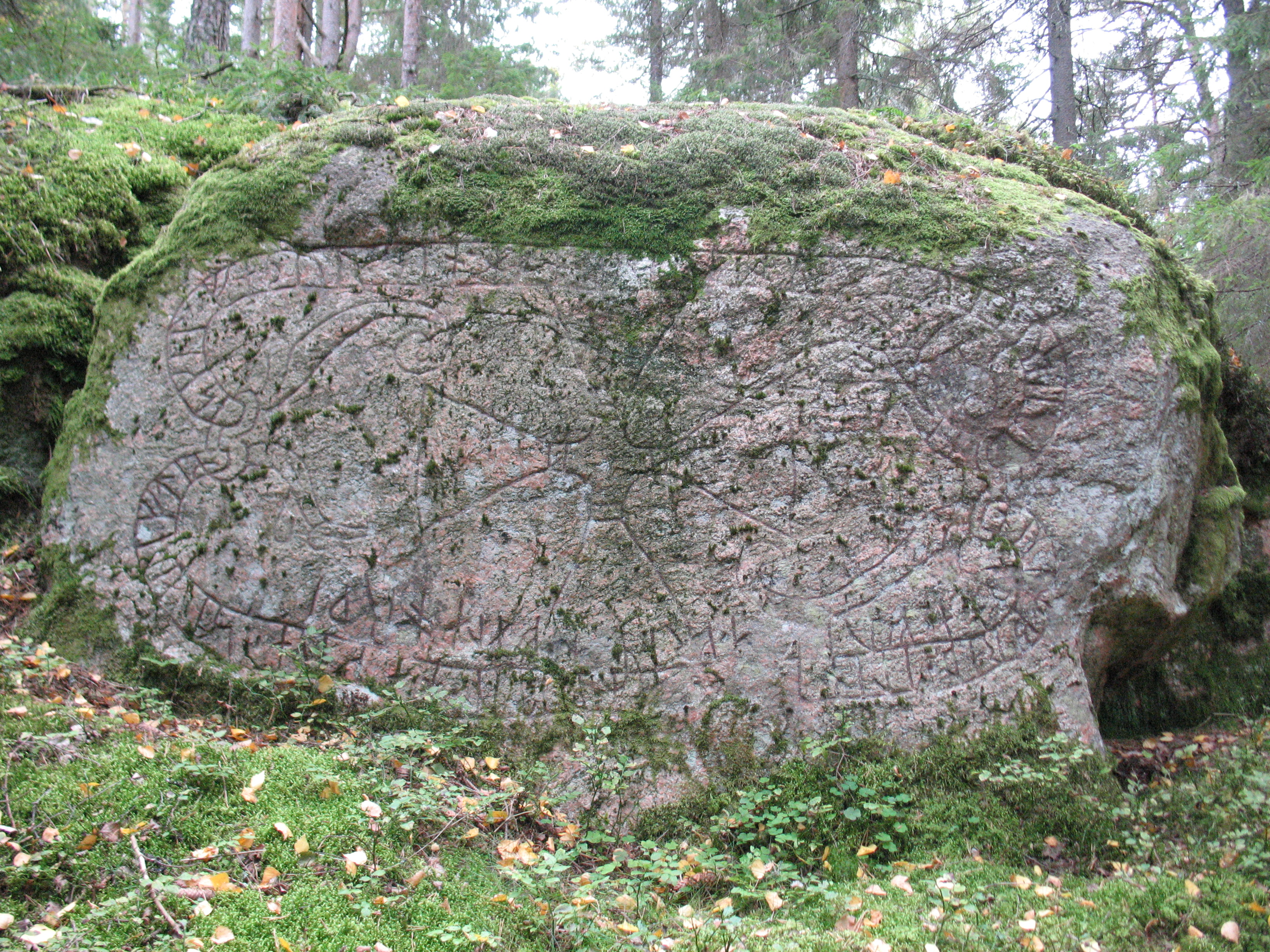 Very inaccessible runestone in Södermanland, Sweden